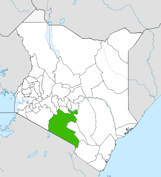 Nairobi metro within kenyaKiswahili: Nairobi metro kwenye nchi ya kenya